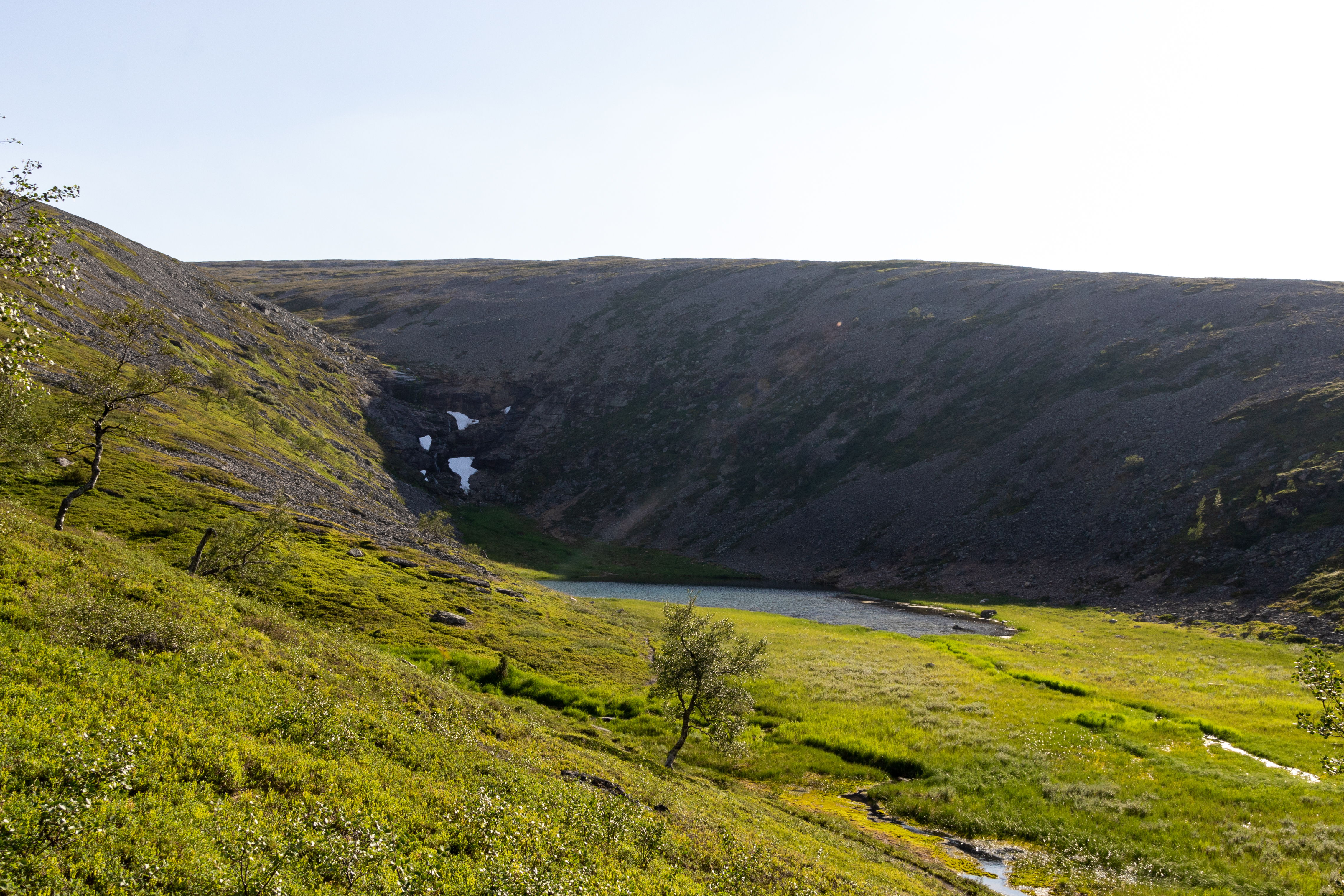 Paratiisikuru in Urho Kekkonen National Park, Sodankylä.